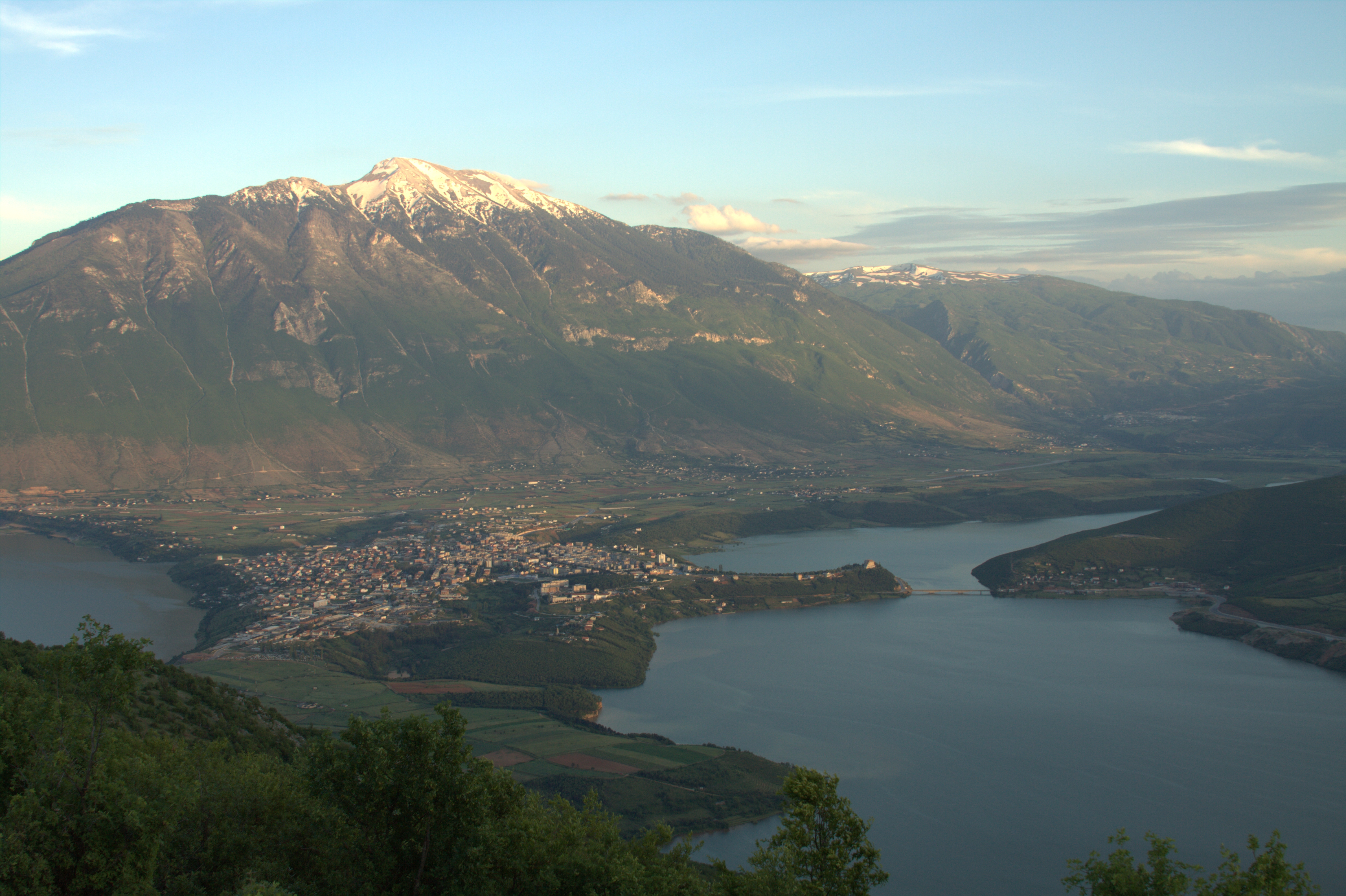 Kukesi, Gjallica nga fshati Demiroll